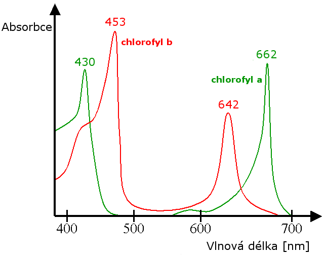 Chlorophyll a and b absorbance spectra